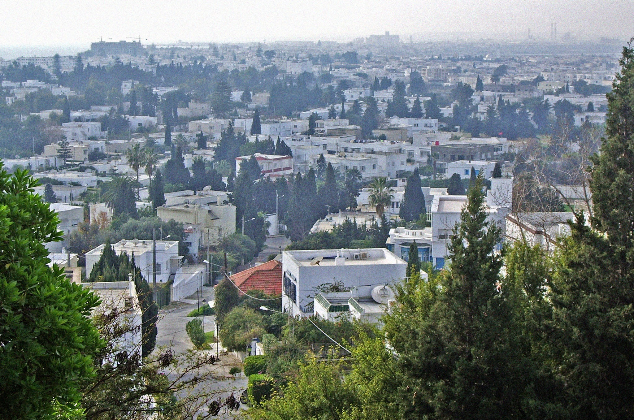 Carthage - Tunisia